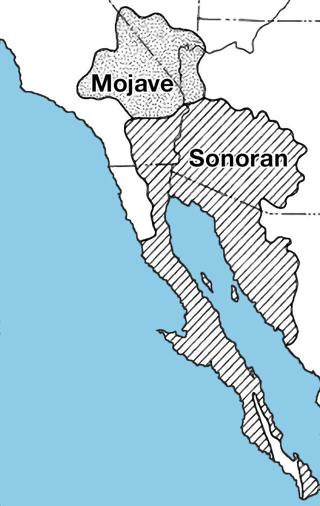 Locator map of the Mojave Desert and Sonoran Desert — desert ecoregions in southwestern North America. For northwest Arizona (Mojave Desert), the Grand Wash Cliffs are the southwest perimeter of the high country (Colorado Plateau); the lower elevation lands westwards include Hualapai Valley, the White Hills (Arizona), and Detrital Valley, all bordering Lake Mead, with parts in the Lake Mead National Recreation Area.